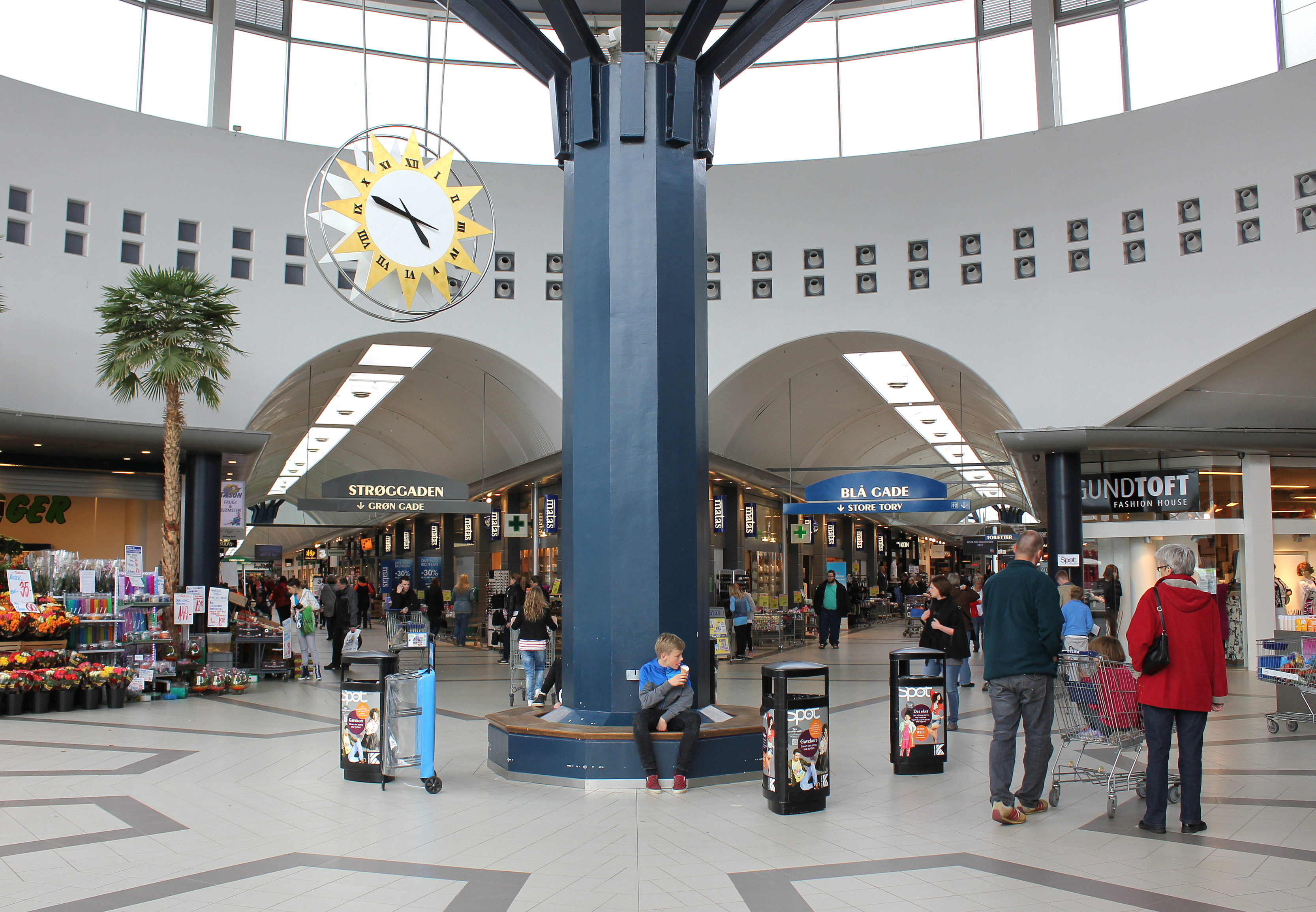 Kolding Storcenter is a big shopping mall Kolding and is the largest shopping center in Jutland. It covers 62.000 m ² and contains over 120 shops and restaurants. Kolding Storcenter was established in 1993 and later expanded by 20,000 m ² in 1999.